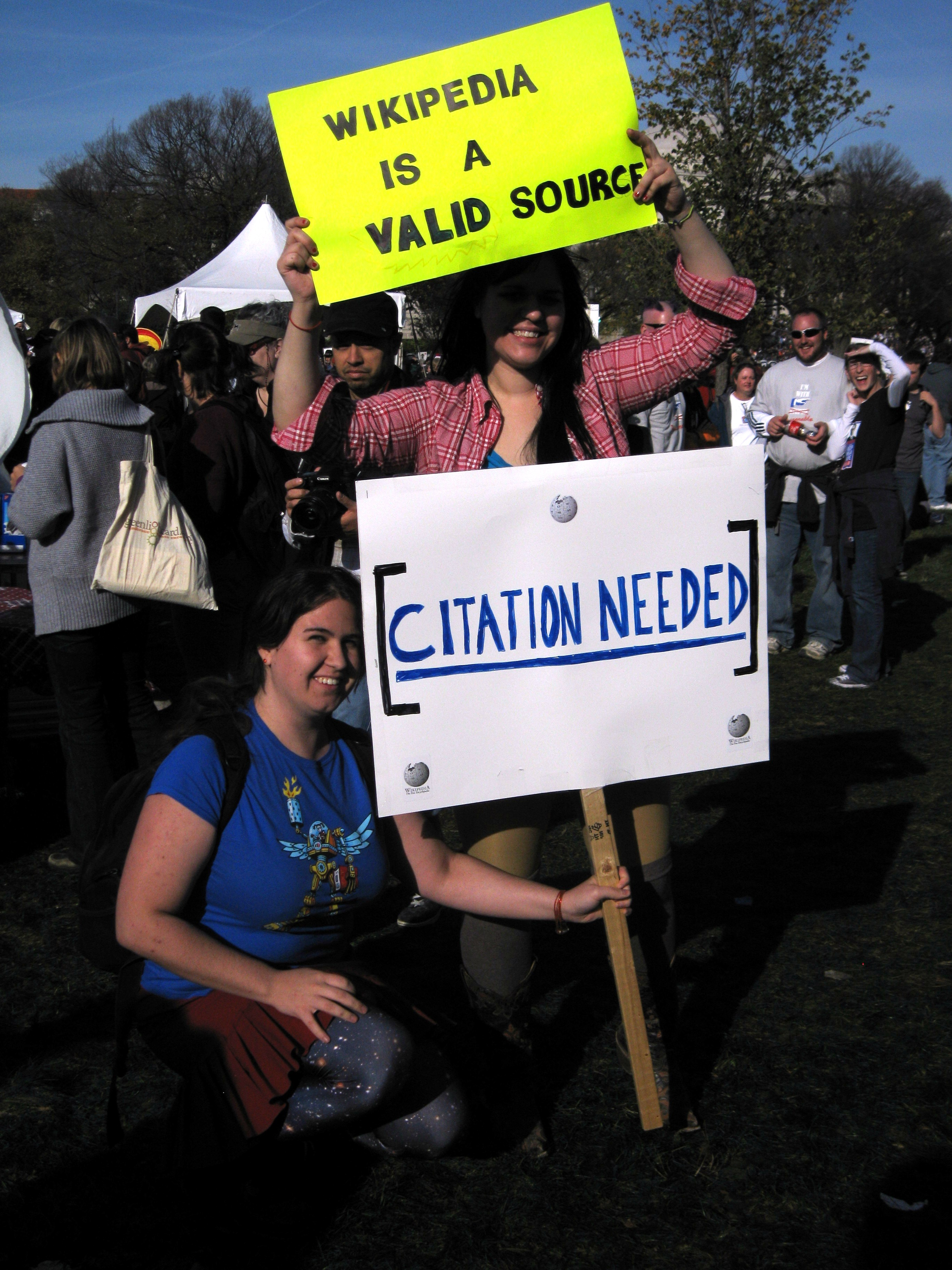 Two participants of the "Rally to Restore Sanity and/or Fear" in Washington D.C. (USA), holding signs saying "Wikipedia is a valid source" and "citation needed"